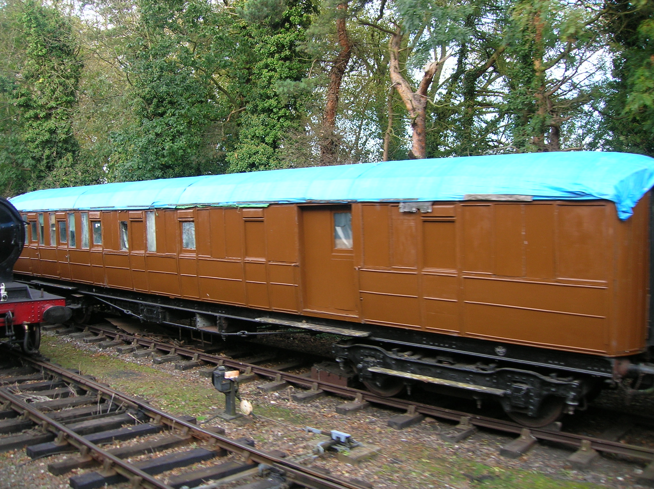 Former 1924 Flying Scotsman express CK at Rothley. This carriage holds the distinction of being the only survivor from the original LNER Flying Scotsman express train